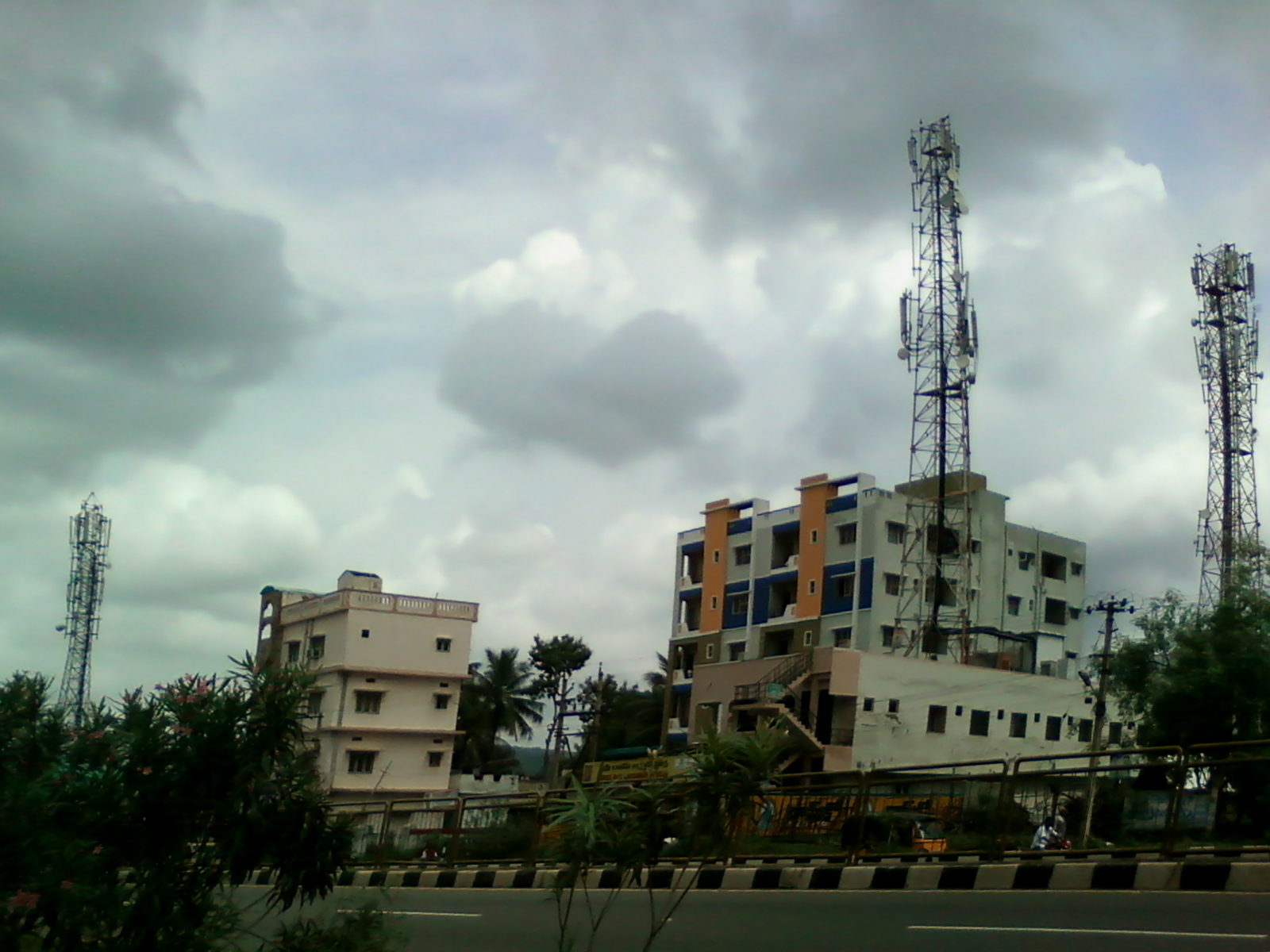 View of Madhurawada in Visakhapatnam